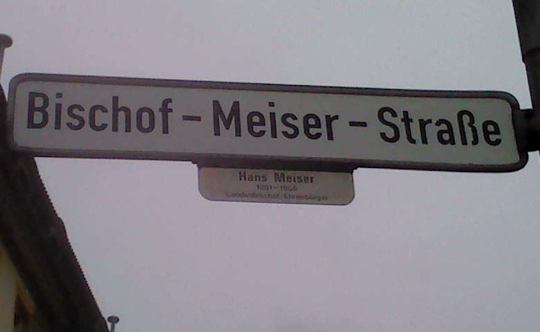 street sign Bischof-Meiser-Straße in Ansbach, Frankonia, Germany.